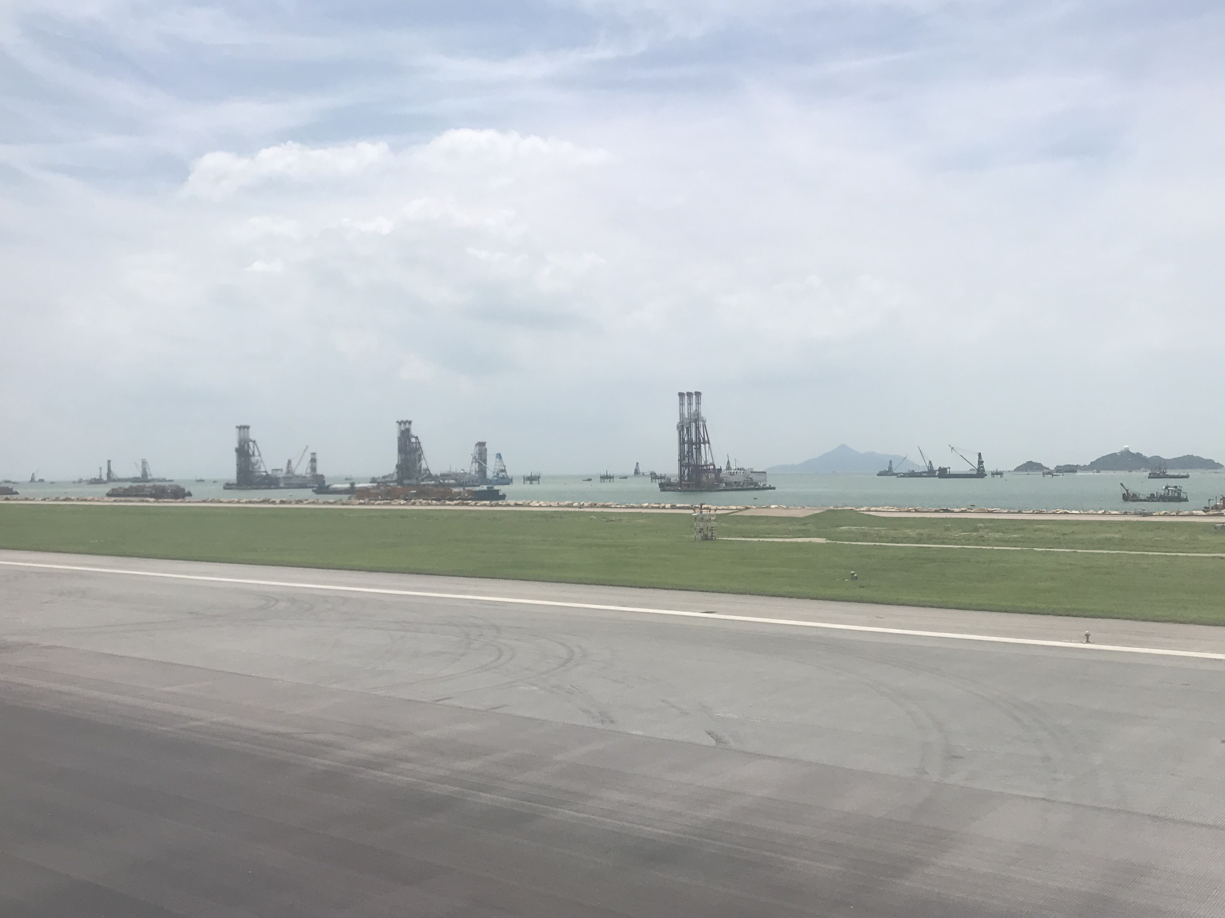 201806 Construction of The Three Runways System Expansion at HKG